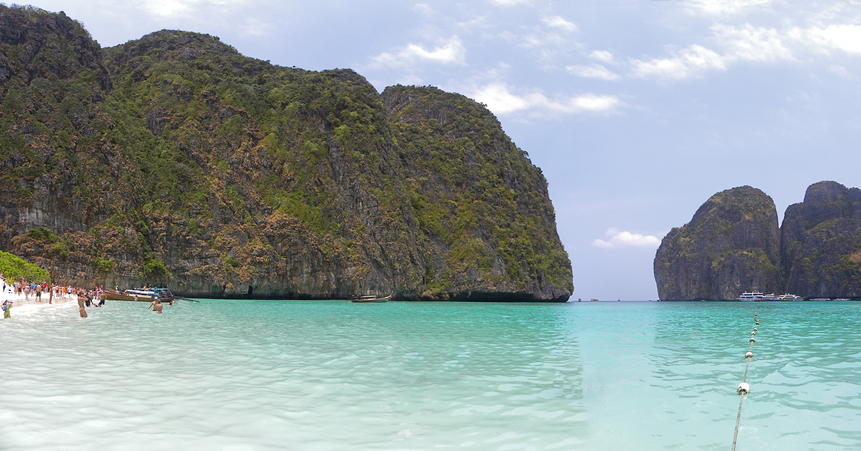 Ao Maya (Ko Phi Phi Lee)